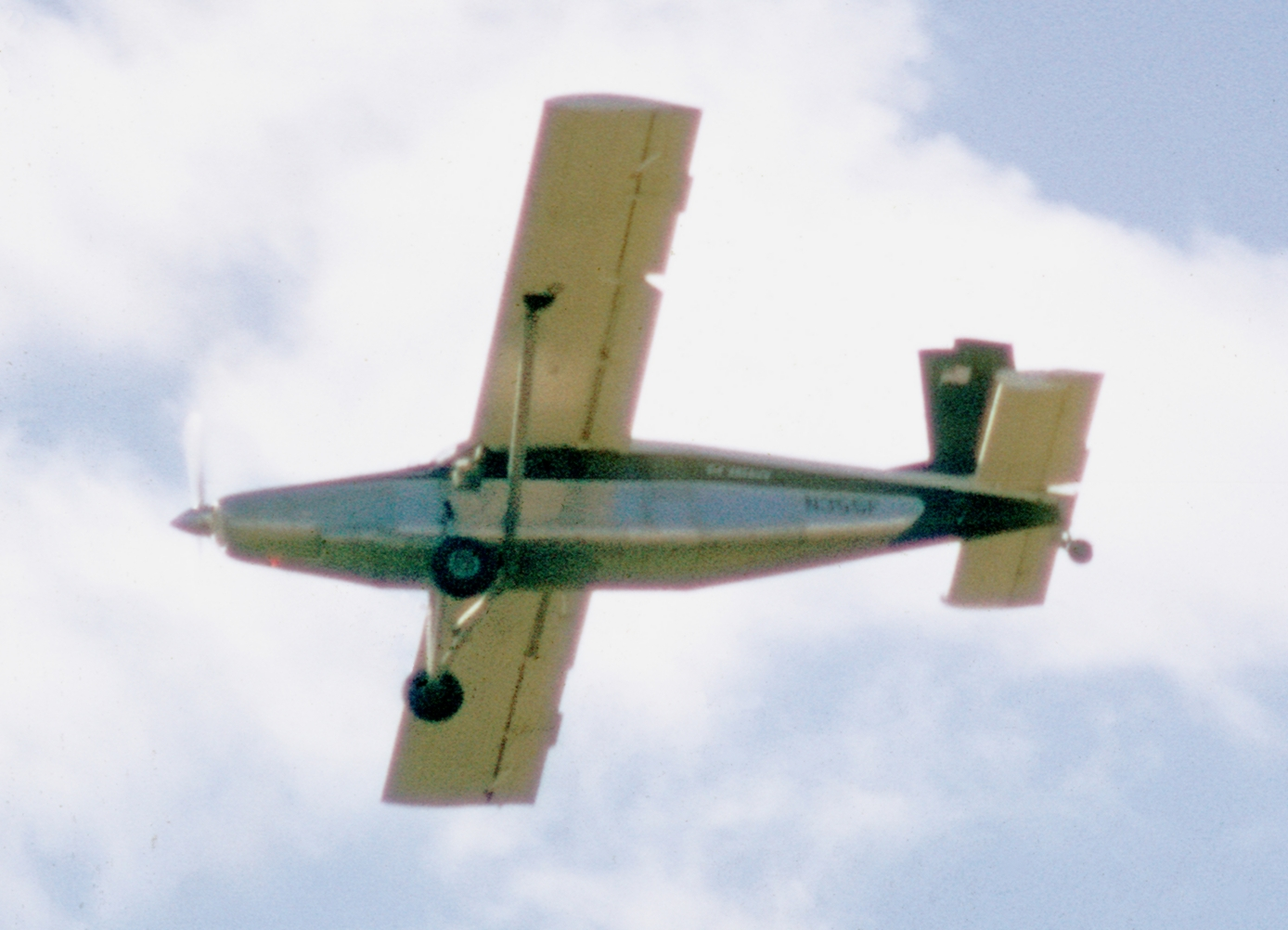 An Air America Pilatus PC-6 Porter (N355F) over Southeast Asia. Often forced to operate from short, crude and isolated landing strips known as Lima Sites, Air America relied on helicopters and rugged light aircraft like this Pilatus PC-6 Porter. The PC-6 N355F was acquired by Air America in 1969 and was mainly used in Laos. It was finally boxed and ready for shipment to the U.S. at Tan Son Nhut airport, Vietnam, where it was abandoned on 29 April 1975.